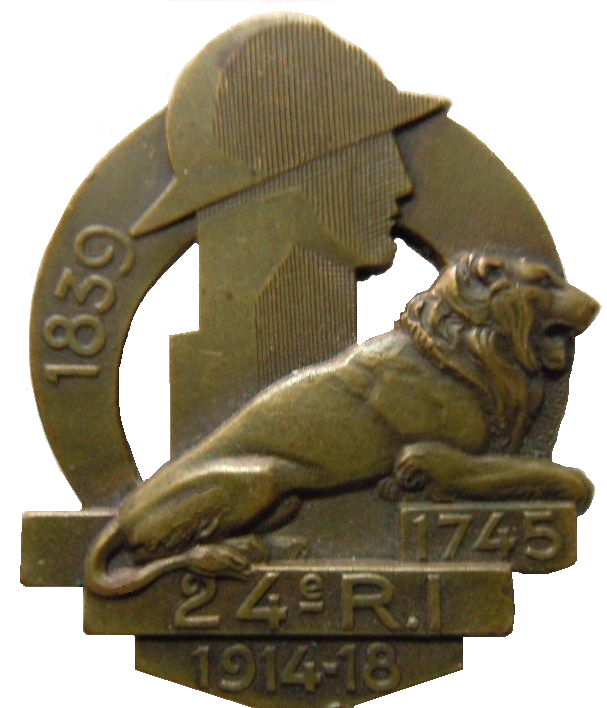 This regiment badge has been in use in 1939 by the 24th infantry regiment (France). The dates are referring to major battles/wars at which the 24eme win fame. 1745 refers to the battle of Fontenoy May 11th, 1745; 1839 refers to the battle of gorge of La Chiffa December 31st, 1839; 14-18 refers to WWI.